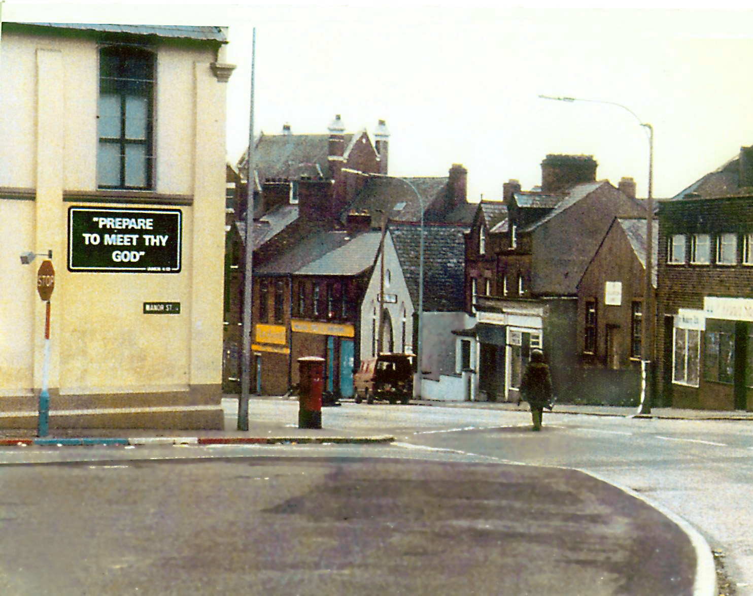 "The Long Walk" – a British Army Technical Officer approaches a suspect device at the junction of Manor Street and Oldpark Road in Belfast, Northern Ireland. The quotation on the sign on the building to the left is from the Old Testament (Amos 4:12).